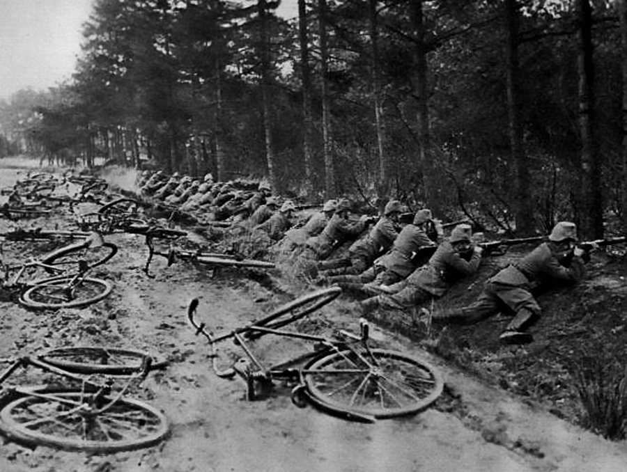 Radfahrer an der Westfront ,1914